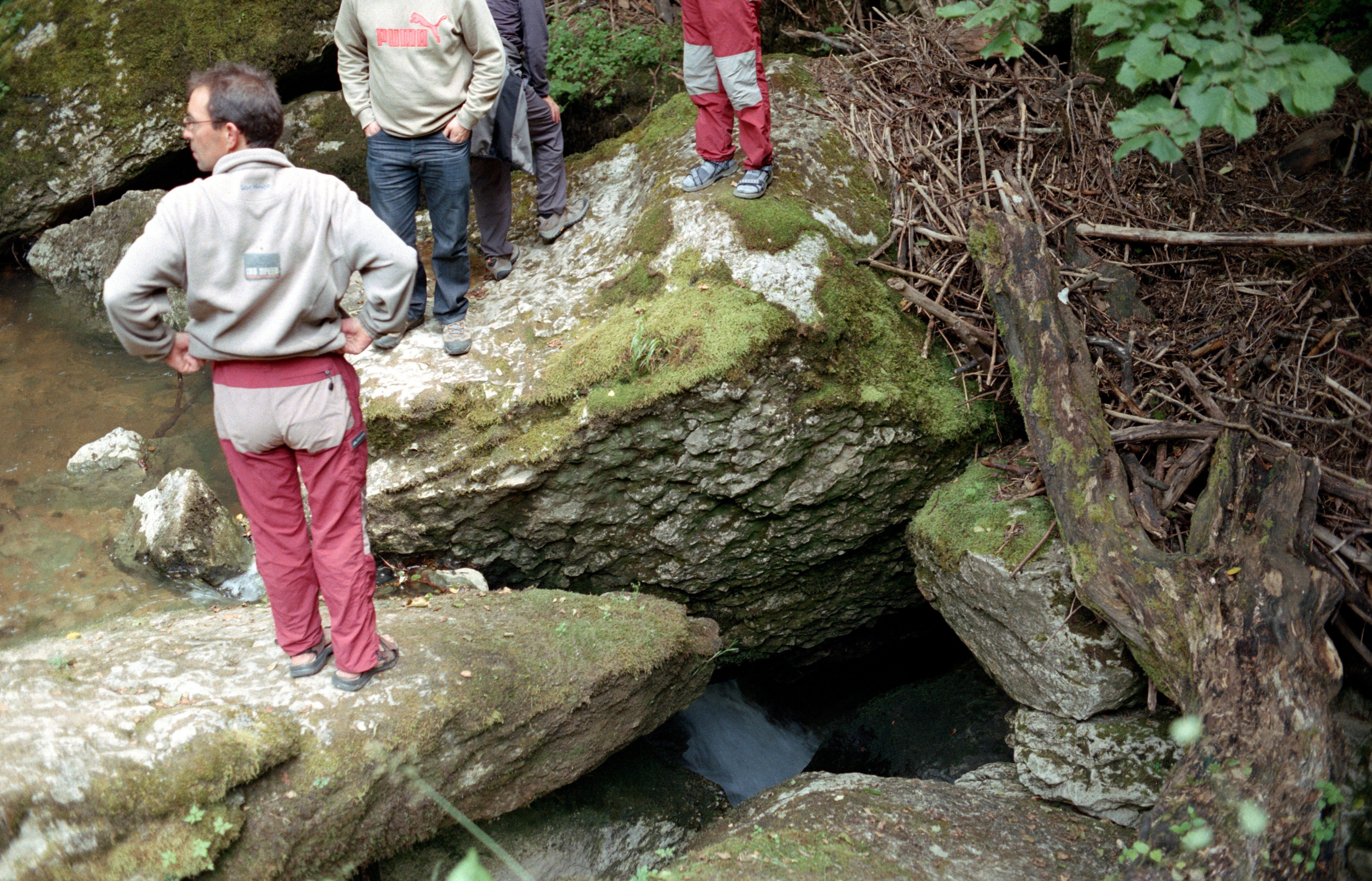 Sumidero del río Guareña en el Monumento Natural de Ojo Guareña, en Burgos (España)